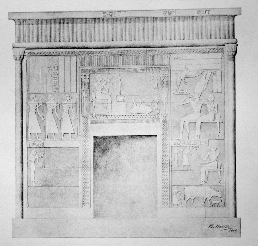 reconstructional drawing of the shrine of Sadhe (one of Mentuhoteps wifes) at the Mortuary Temple of Mentuhotep II. at Deir el-Bahary, drawing by Margaret N., wife of Edouard Naville